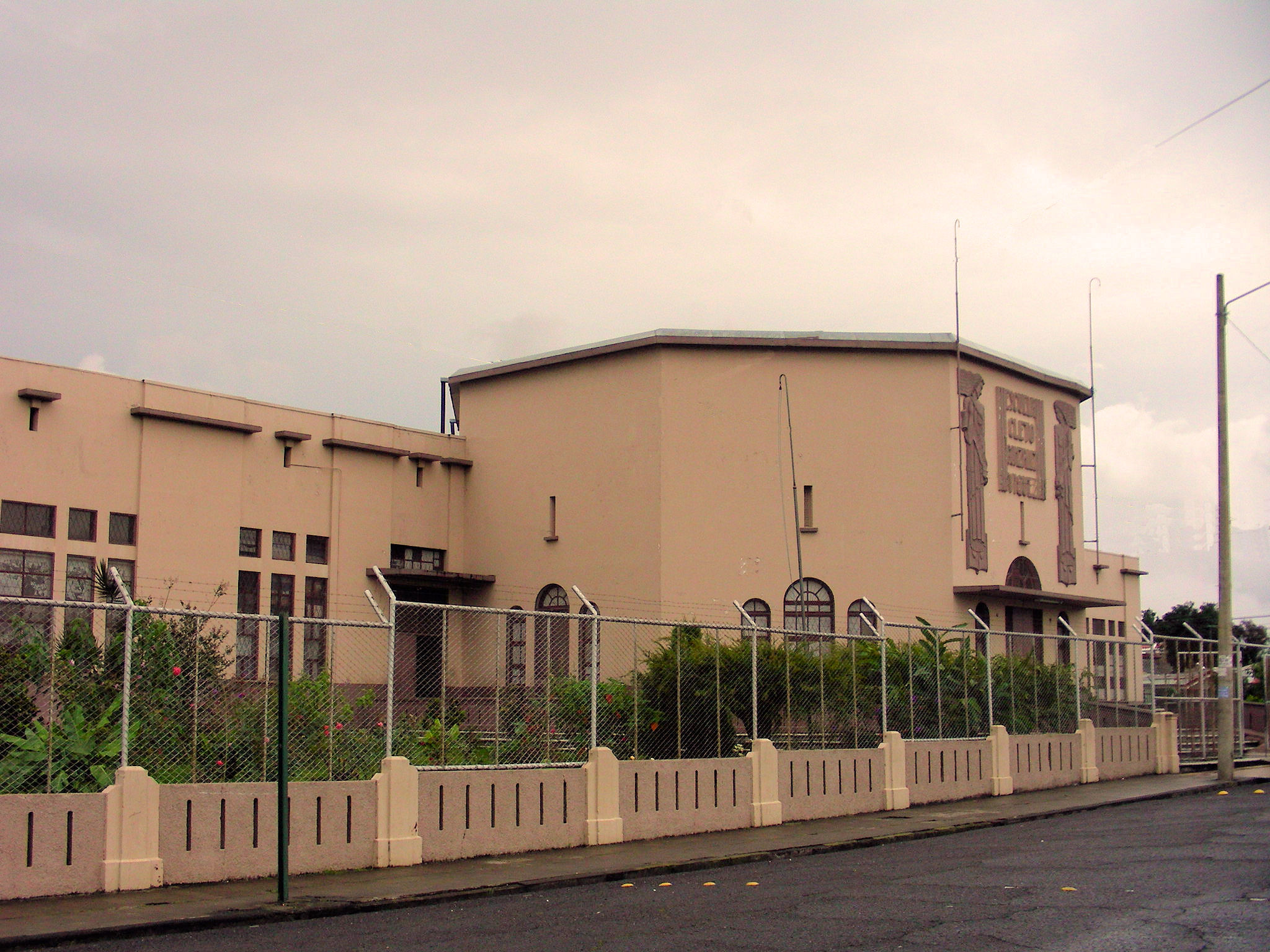 Cleto González Víquez, Primary School, Heredia, Costa Rica